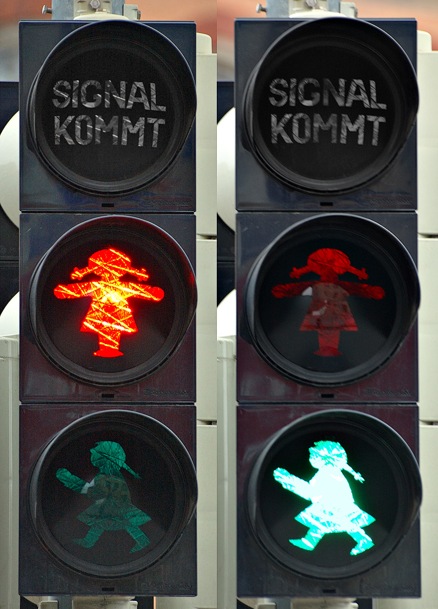 This image shows a pedestrian light with a female. The photo has been taken in Zwickau / Germany where the first traffic light of this sort in Germany is located.